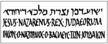 INRI Titulus